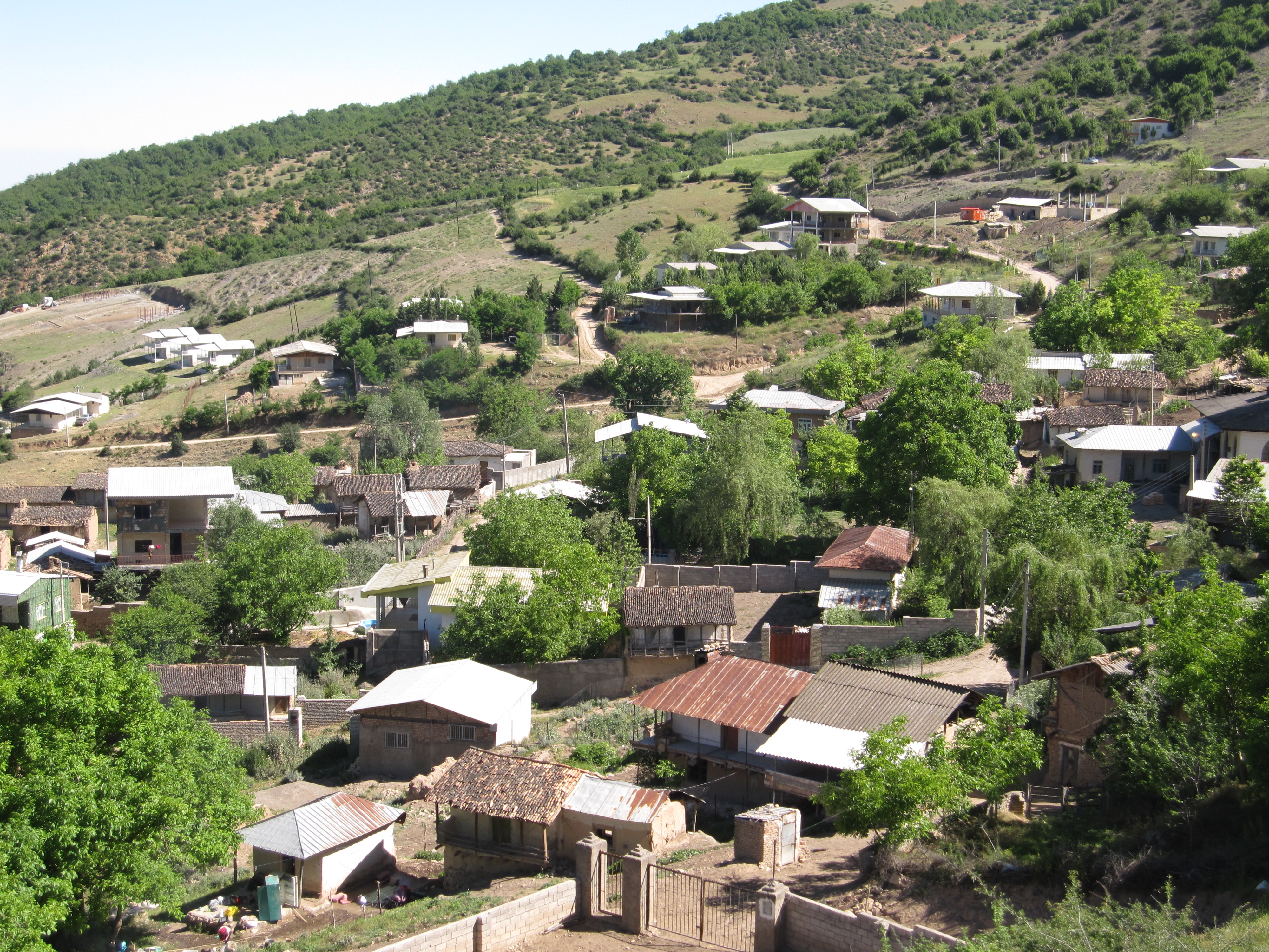 Golestan - Ali Abad Katool - Nersou